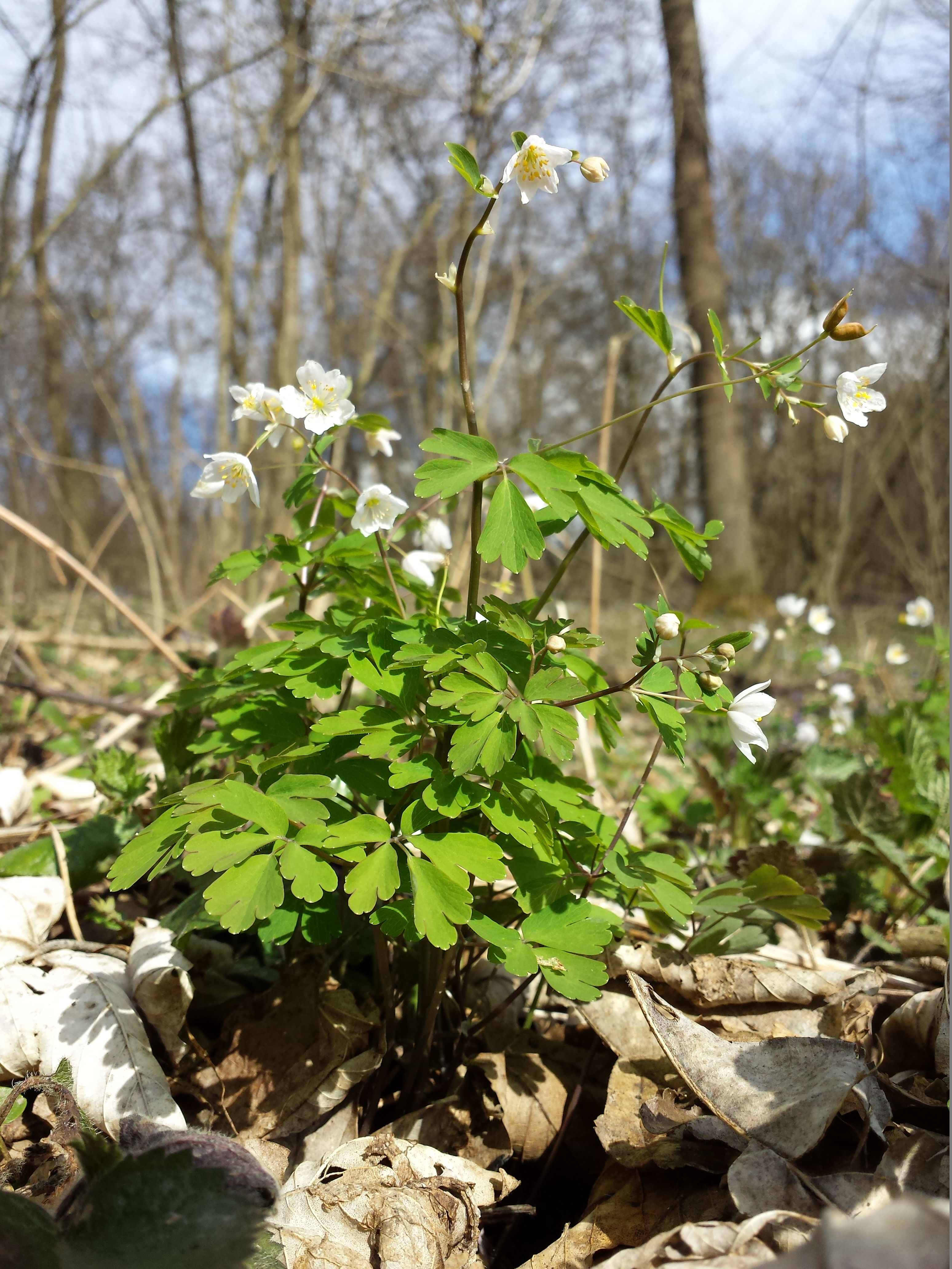 Habitus Taxonym: Isopyrum thalictroides ss Fischer et al. EfÖLS 2008 ISBN 978-3-85474-187-9 Location: Rohrwald, district Korneuburg, Lower Austria - ca. 275 m a.s.l. Habitat: Carpinion betuli